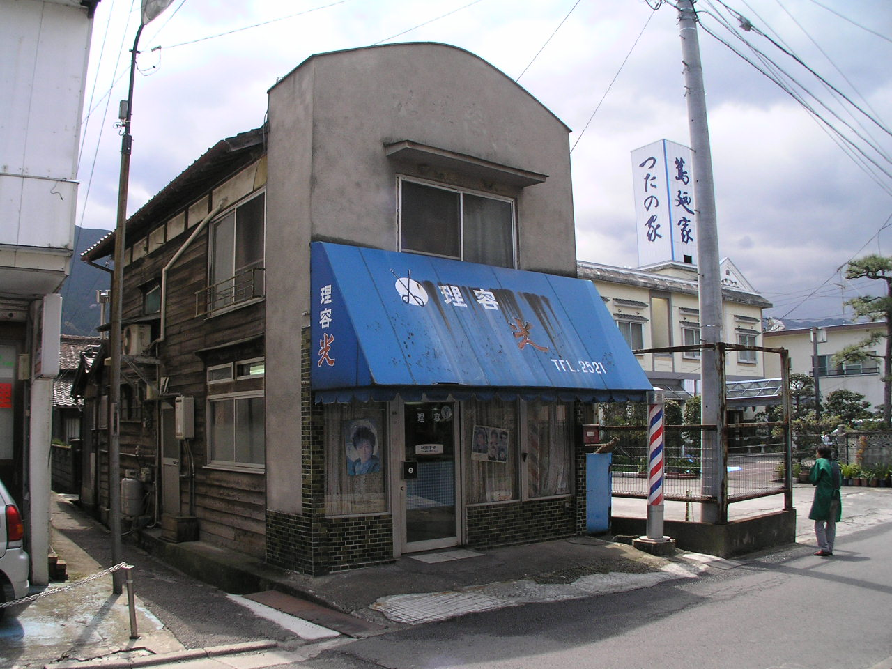 Hikari barbershop in Doi-machi, Shikokuchūō, Ehime Prefecture